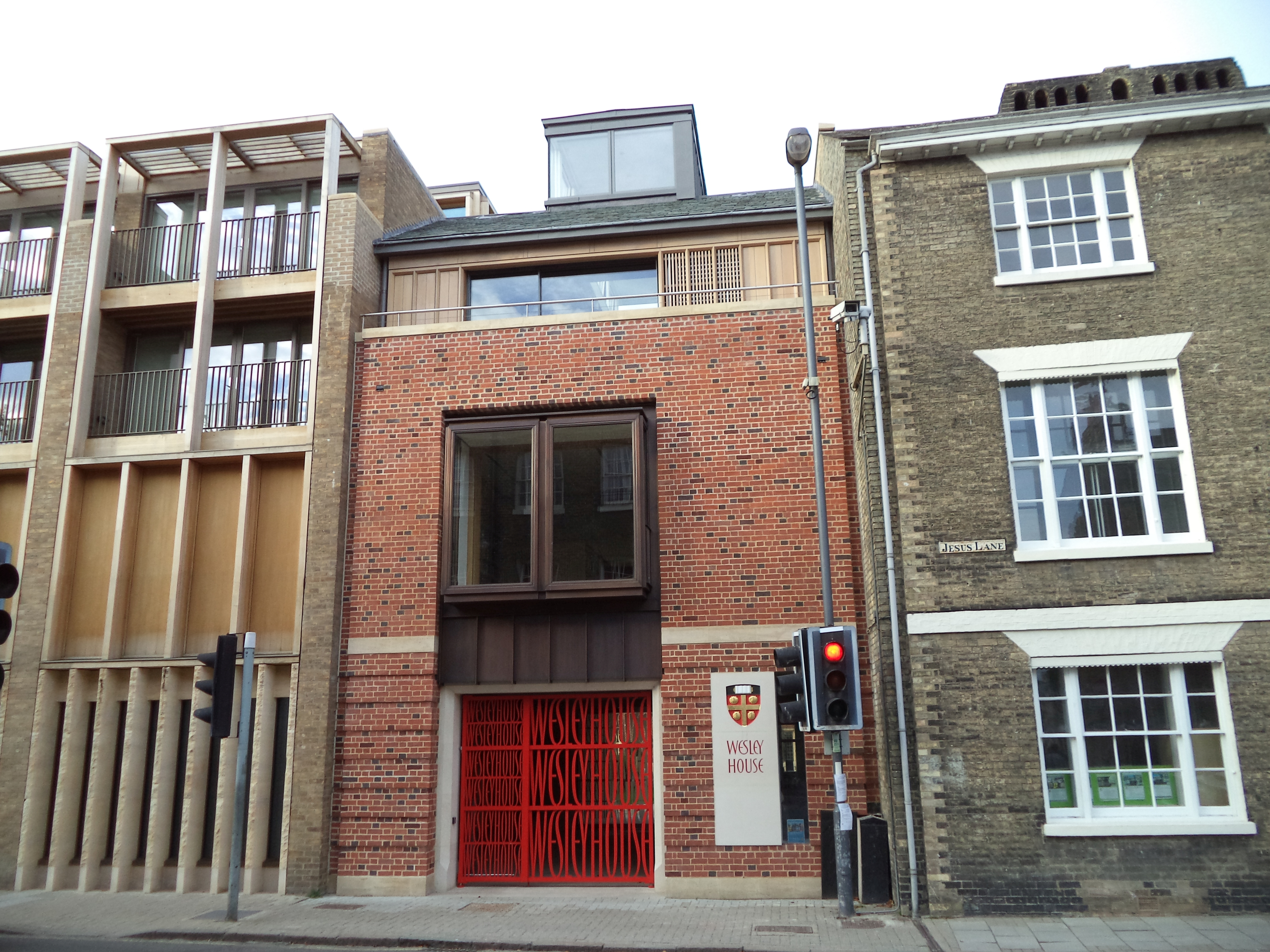 Wesley House Wikidata has entry Q7983934 with data related to this item.